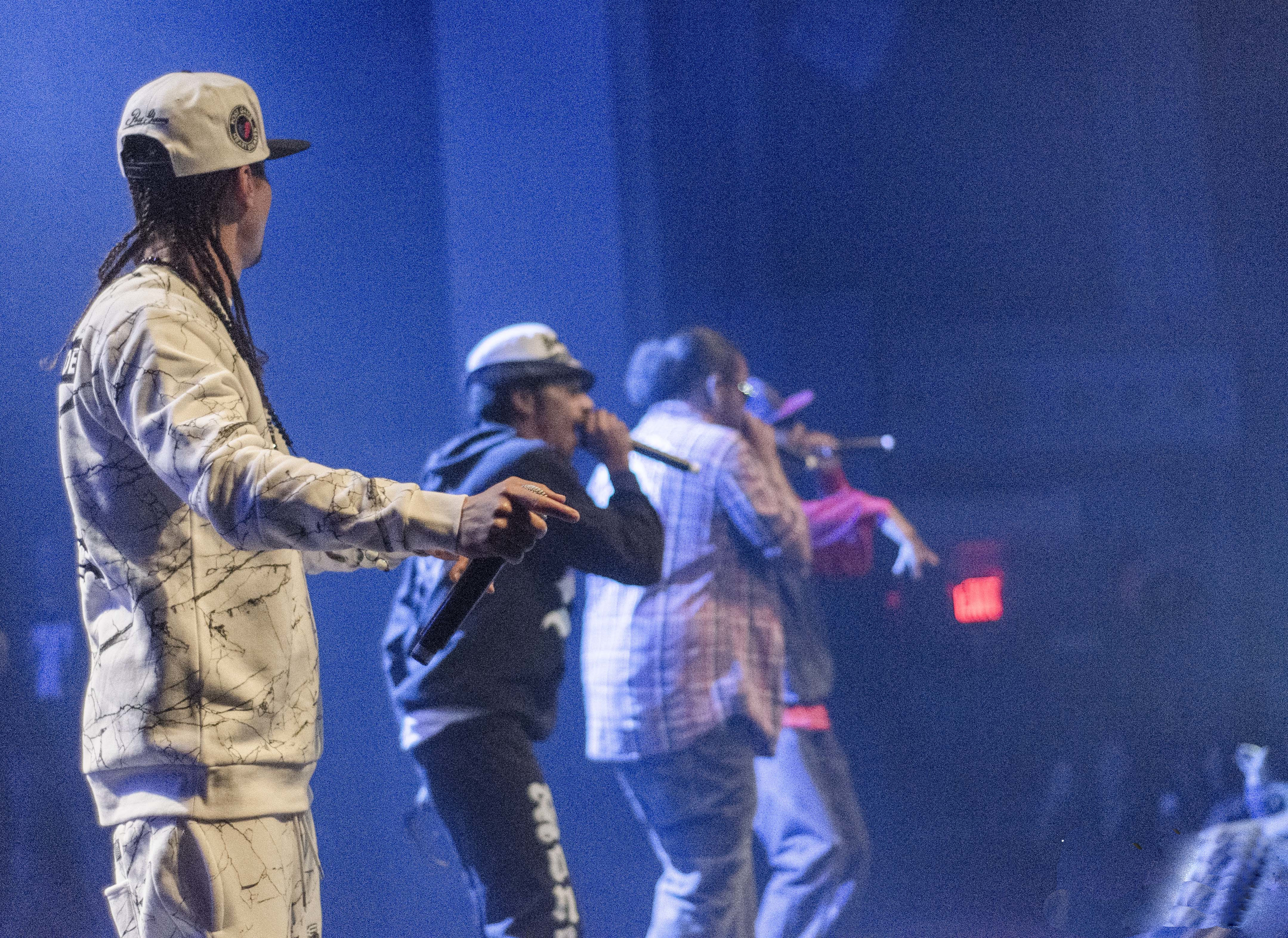 Bone Thugs N Harmony @ Danforth Music Hall 2015 Featuring King Reign. Shot in Danforth Music Hall September 12, 2015 in Toronto. Photography by Drew Yorke for The Come Up Show. Check out the full review at